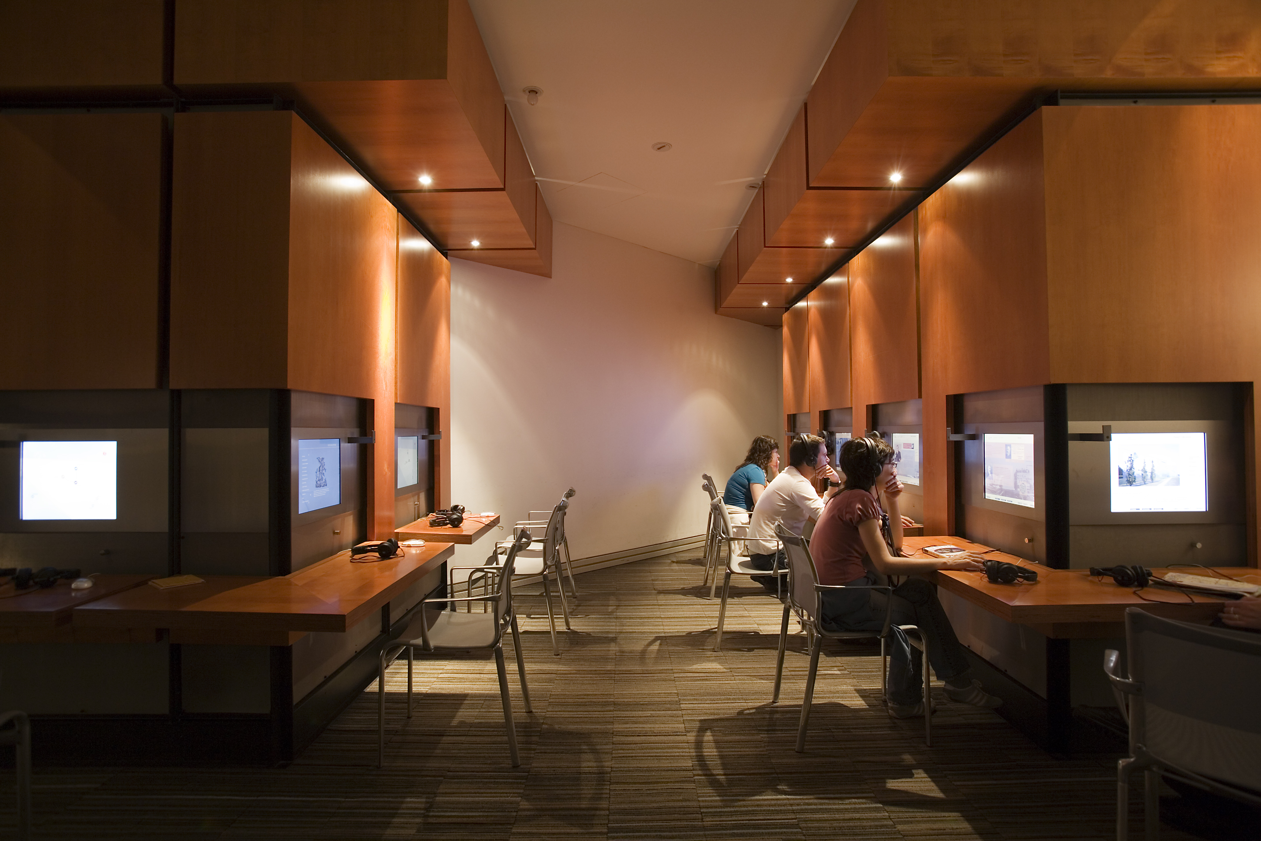 Media Room with students in monitors